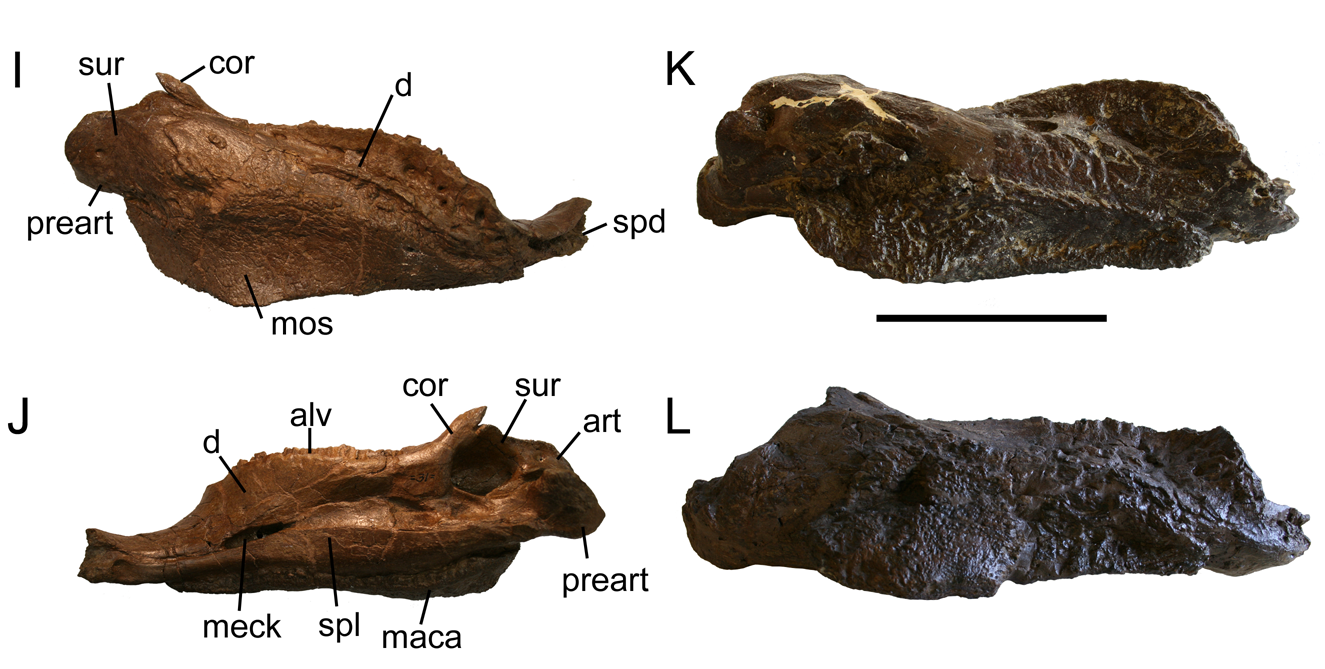 Right mandible of UALVP 31 in I) lateral view and J) medial view. Right mandible in lateral view of K) AMNH 5405 and L) AMNH 5403.